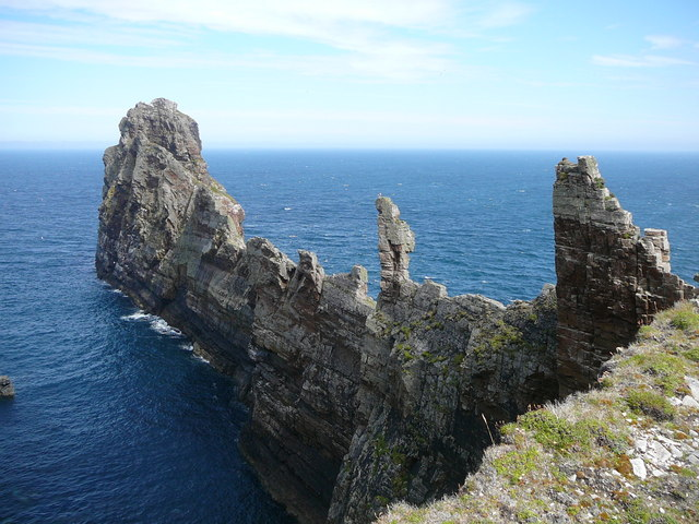 Tormore, Tory Island This spectacular blade of rock thrusts out into the Atlantic at the north eastern corner of Tory Island and reaches almost 80 metres high.